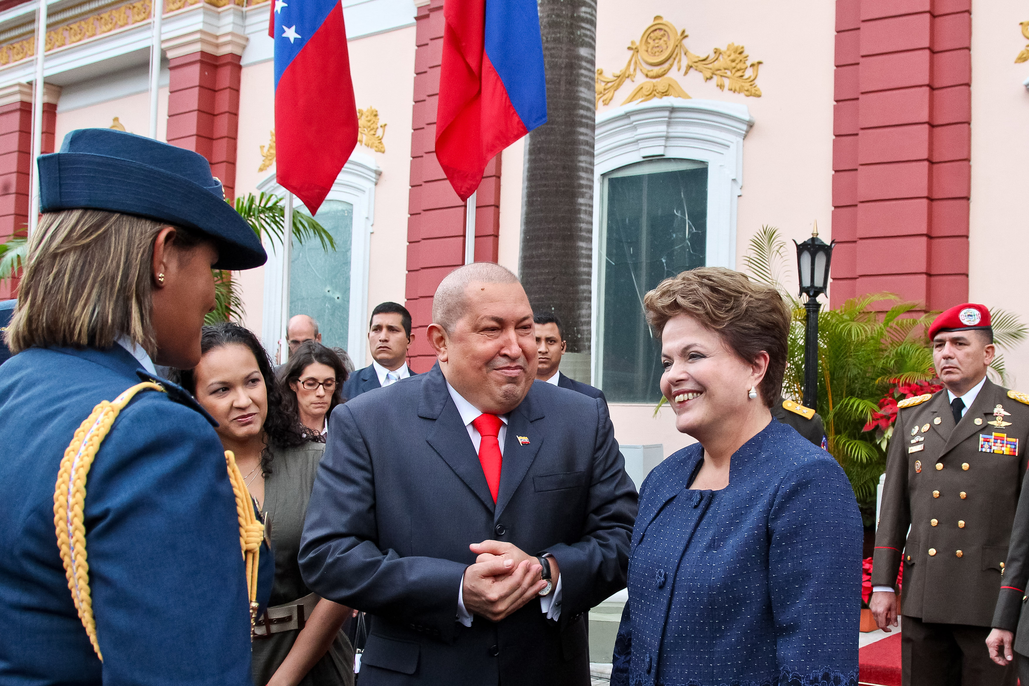 Presidents Dilma Rousseff and Hugo Chávez during the official arrival ceremony at the Miraflores Palace in Caracas, Venezuela